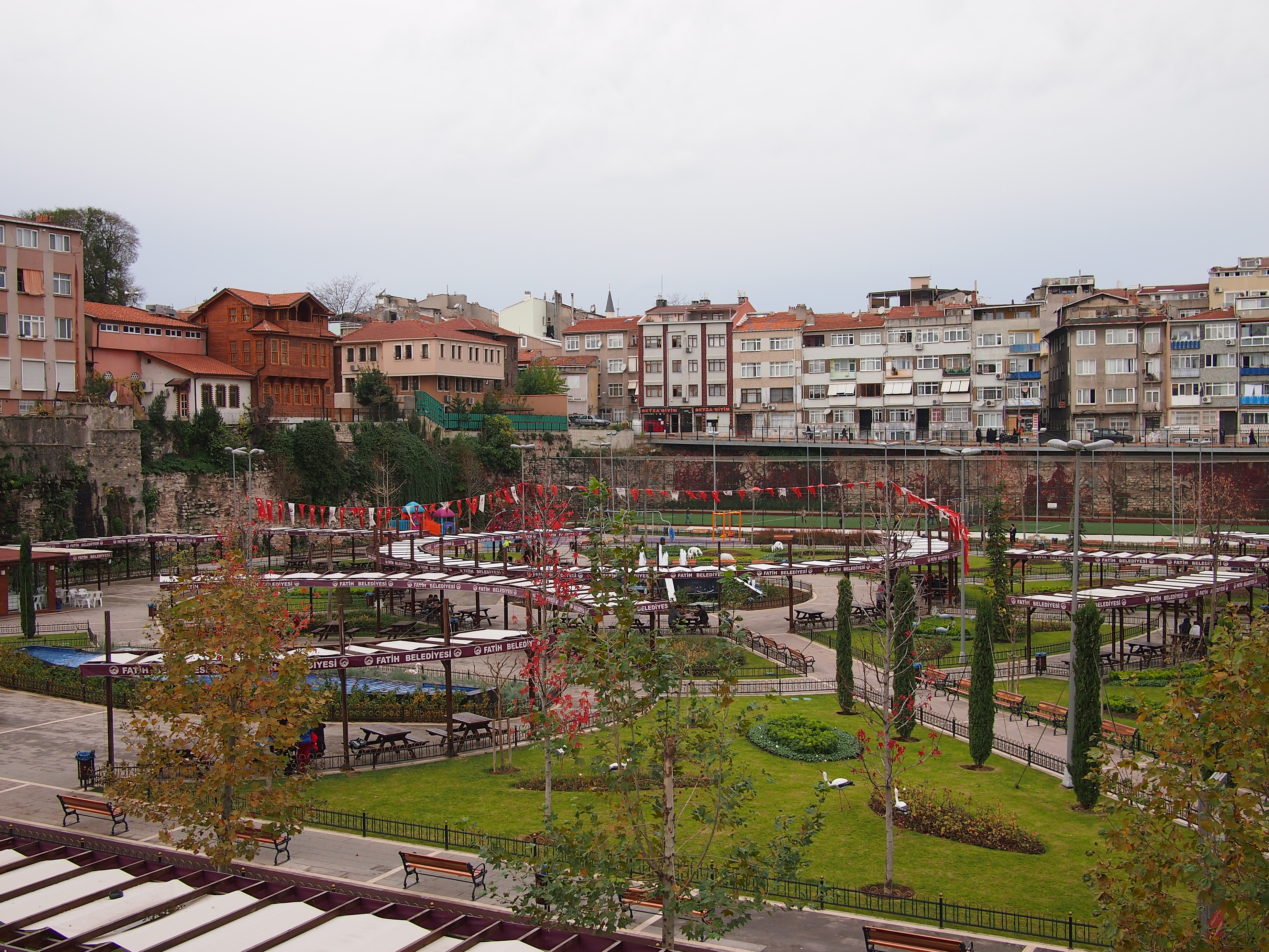 The park in the Byzantine-era Cistern of Aspar in November 2013